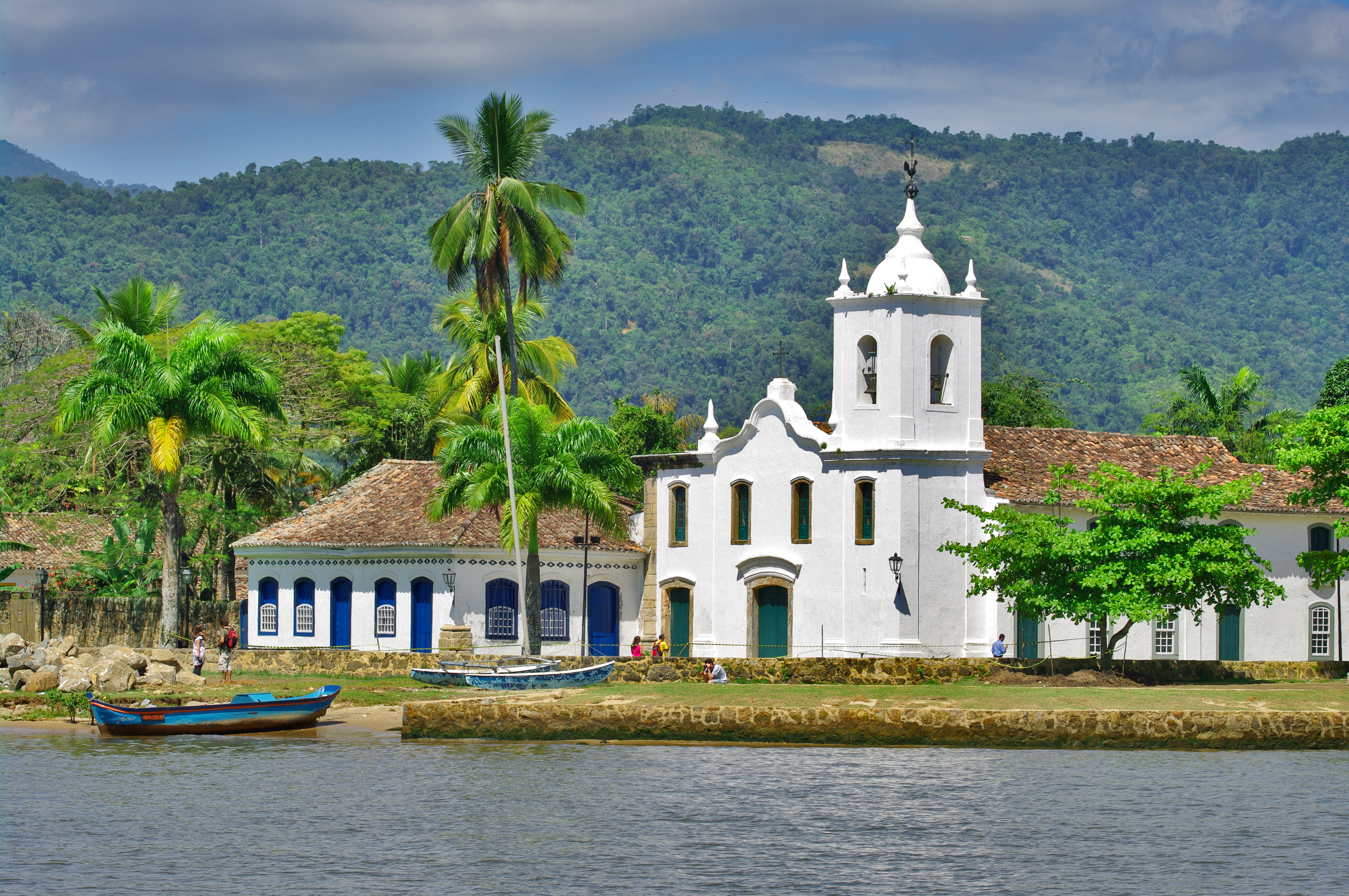 Here cames The Sun - Paraty